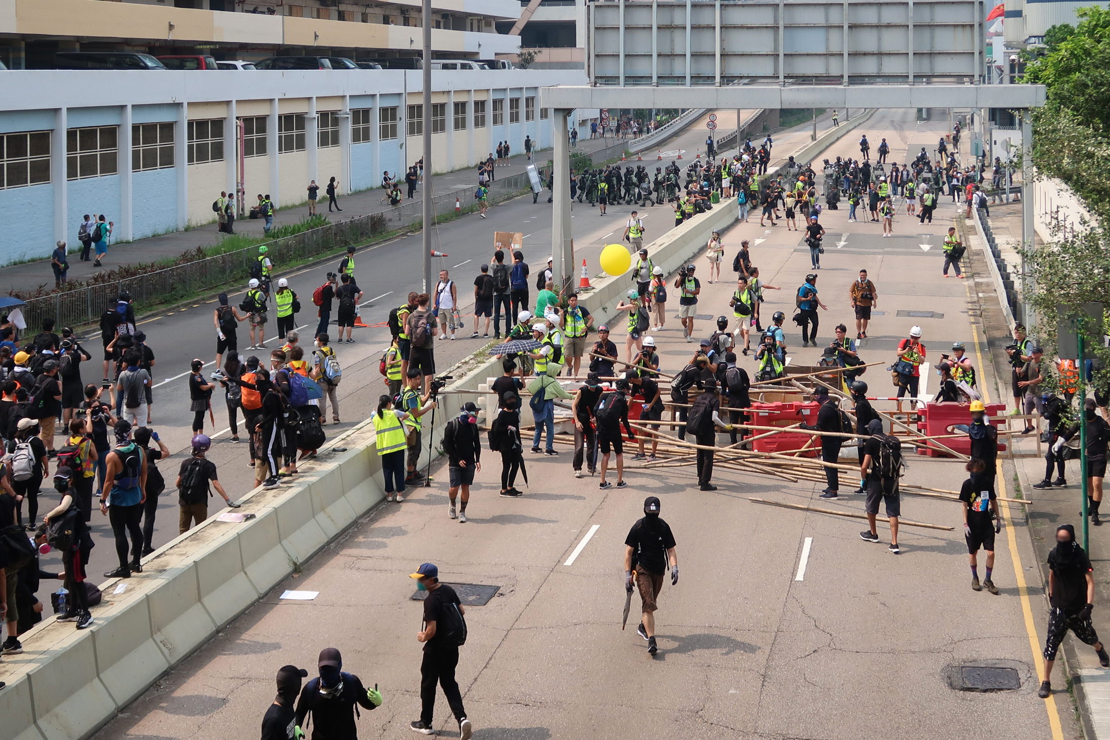 Kowloon Bay Wai Yip Street Roadblock